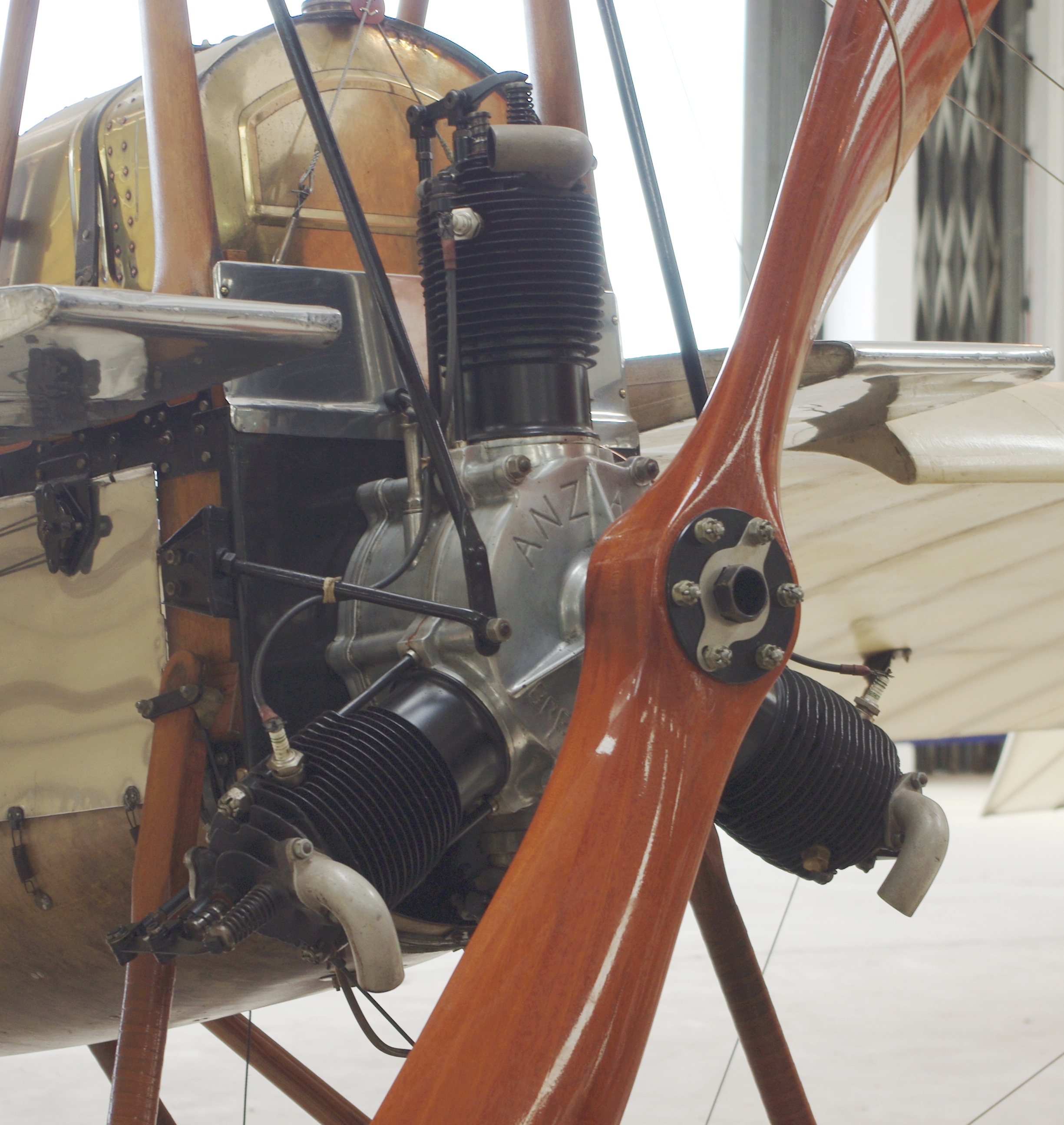 Anzani Y type engine mounted in Deperdussin. Shuttleworth Collection.